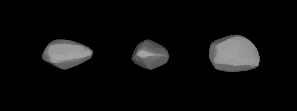 A three-dimensional model of 132 Aethra that was computed using light curve inversion techniques.